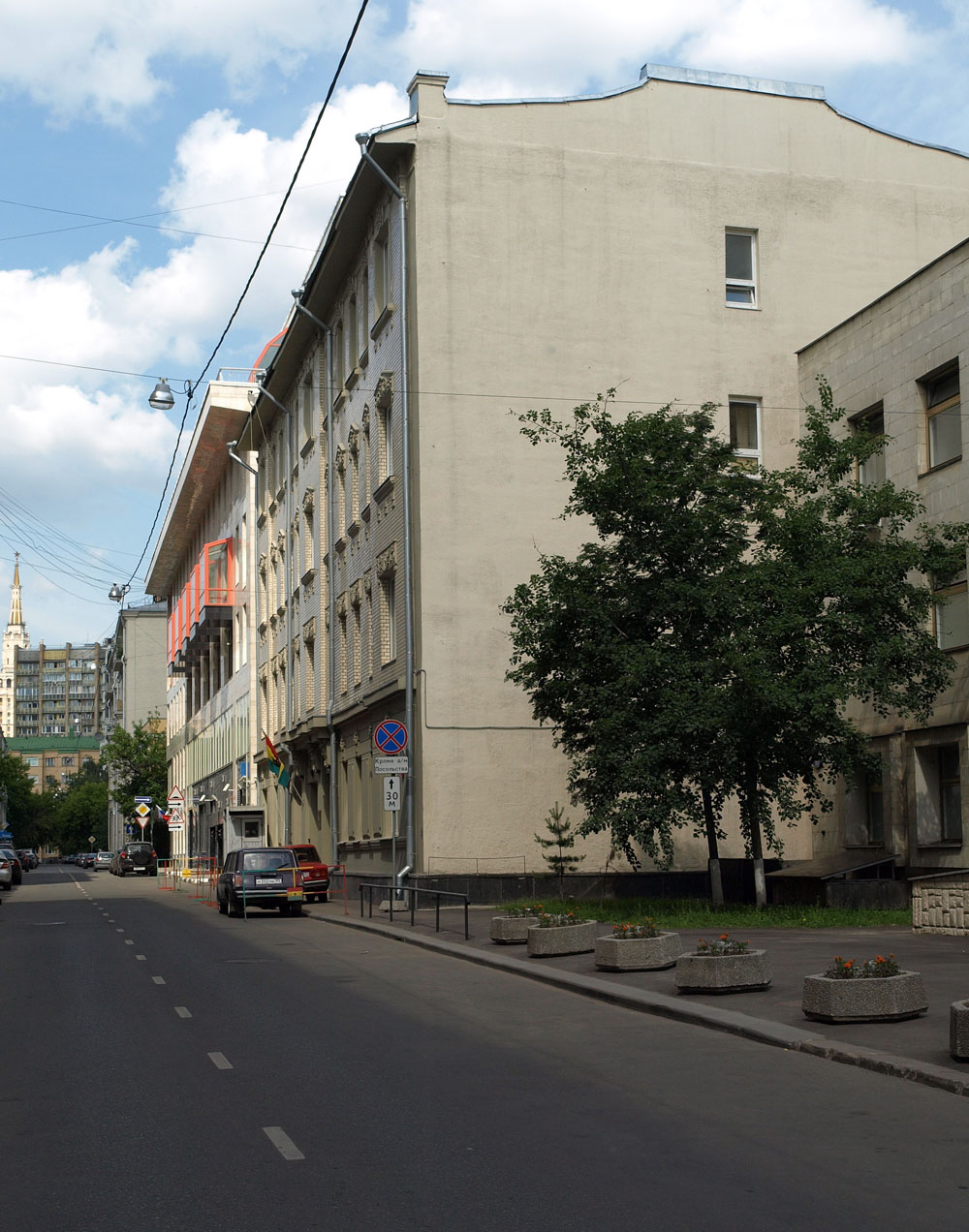 Embassy of Ghana in Moscow (Skatertny lane, 14).